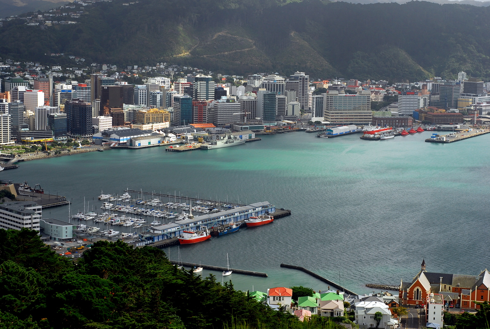 A vista of Lambton Harbour, Wellington City